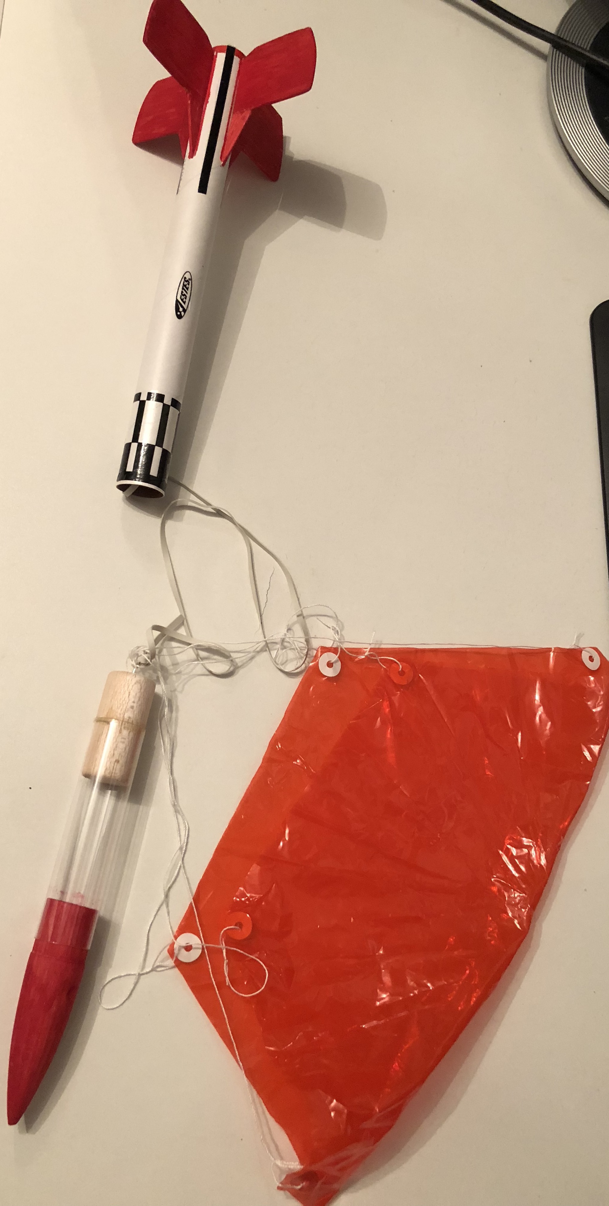 Rocket 3022 Payloader II